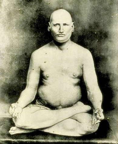 Image (Retouched) of Maharishi Dayanand Saraswati, taken some time before 1883. Last printed in Prasad, Durga: "An English Translation of the Satyarth Prakash", Lahore: Virjanand Press, 1908.